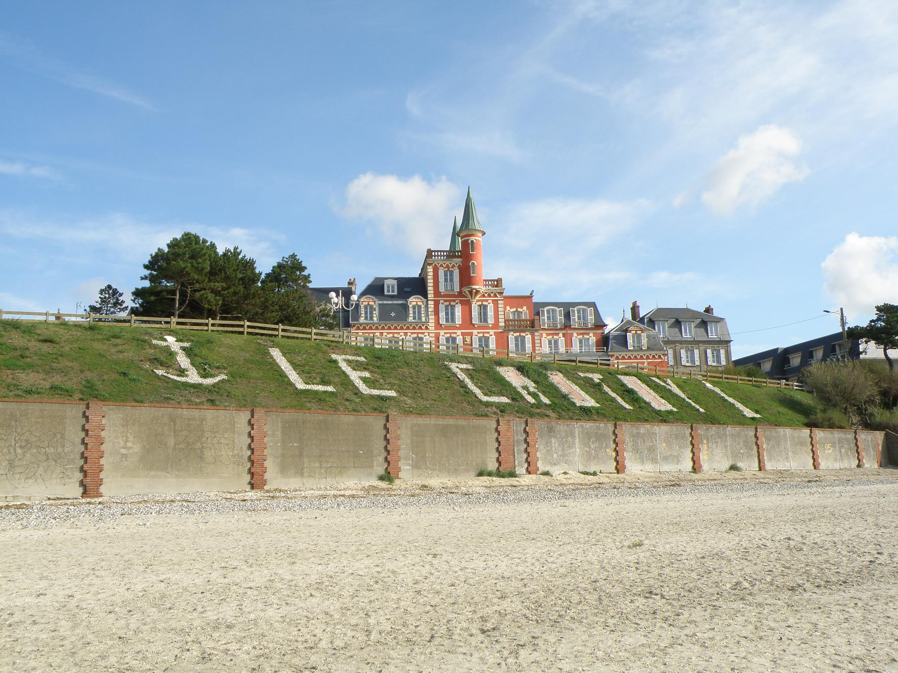 Le Crotoy, France. The view from the beach at low tide.